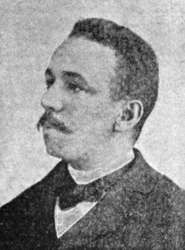 Photographic portrait of S. Laing Williams, an African American lawyer in Chicago, 1903.